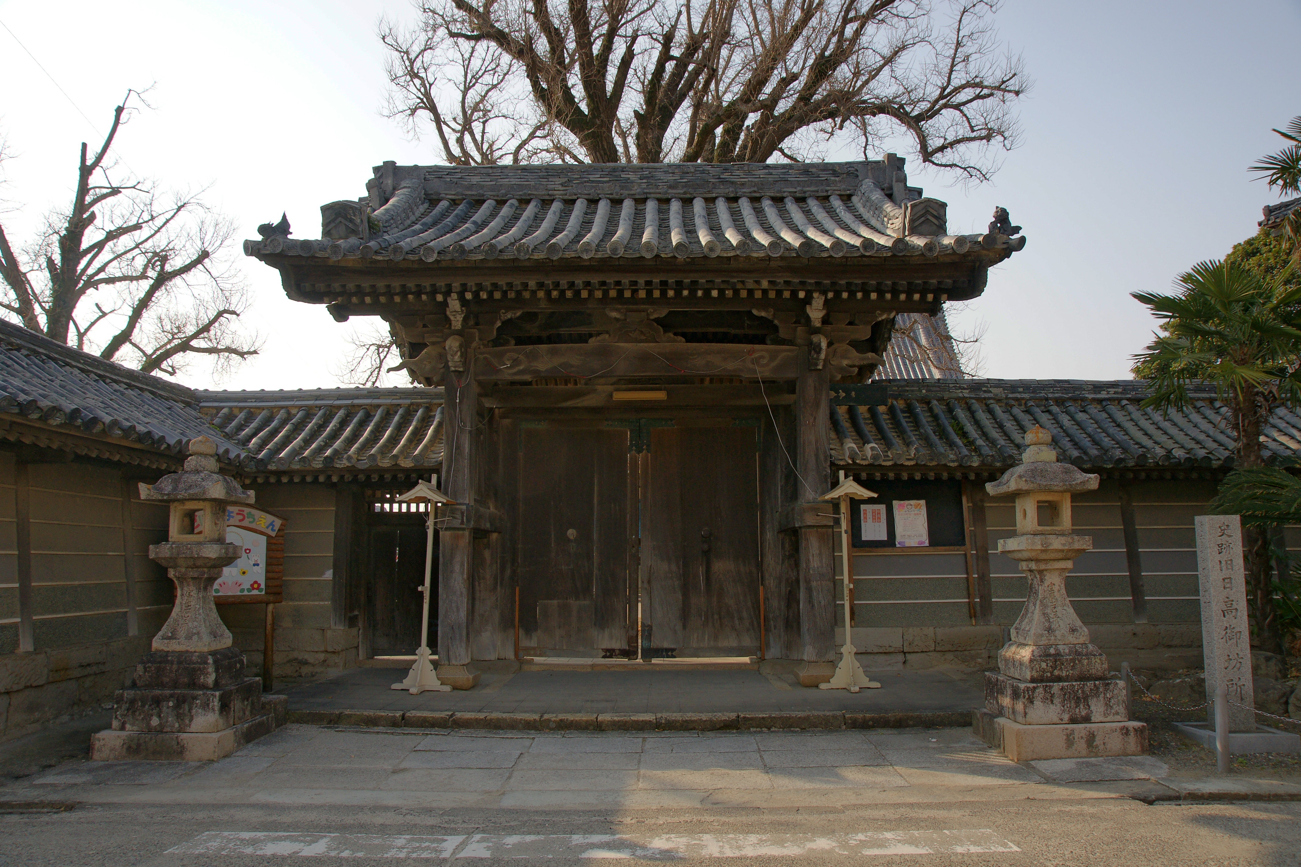 Honganji Hidaka-betsuin, Gobo, Wakayama prefecture, Japan